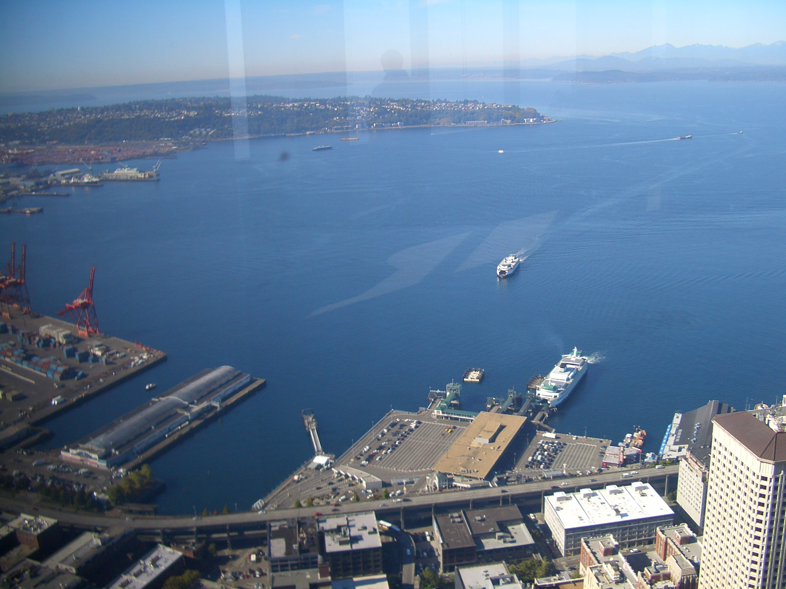 A view of Seattle looking southwest from the observation deck of Columbia Center. Washington State Ferry terminal in the foreground; West Seattle beyond Elliott Bay. Alaska Way Viaduct runs along the shore.